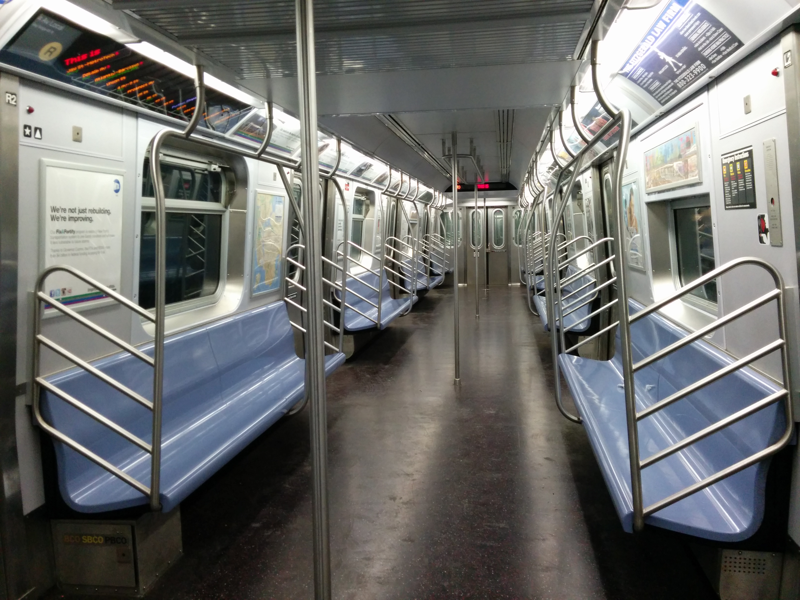 A R160 train car on the R line in Brooklyn.